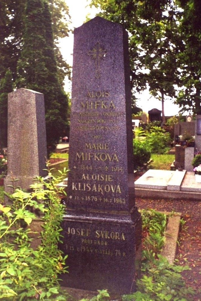 Grave of Russian and Czech astronomer Josef Sýkora (1870-1944) at the cemetery in Ondřejov